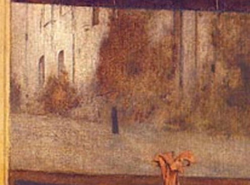 I lock my door upon myself - detail